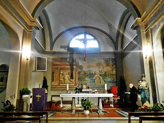 the nave